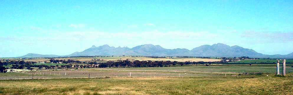 Photo taken and supplied by Brian Voon Yee Yap.